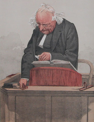 Caricature of Thomas Binney. Caption read "The head of the Dissenters".